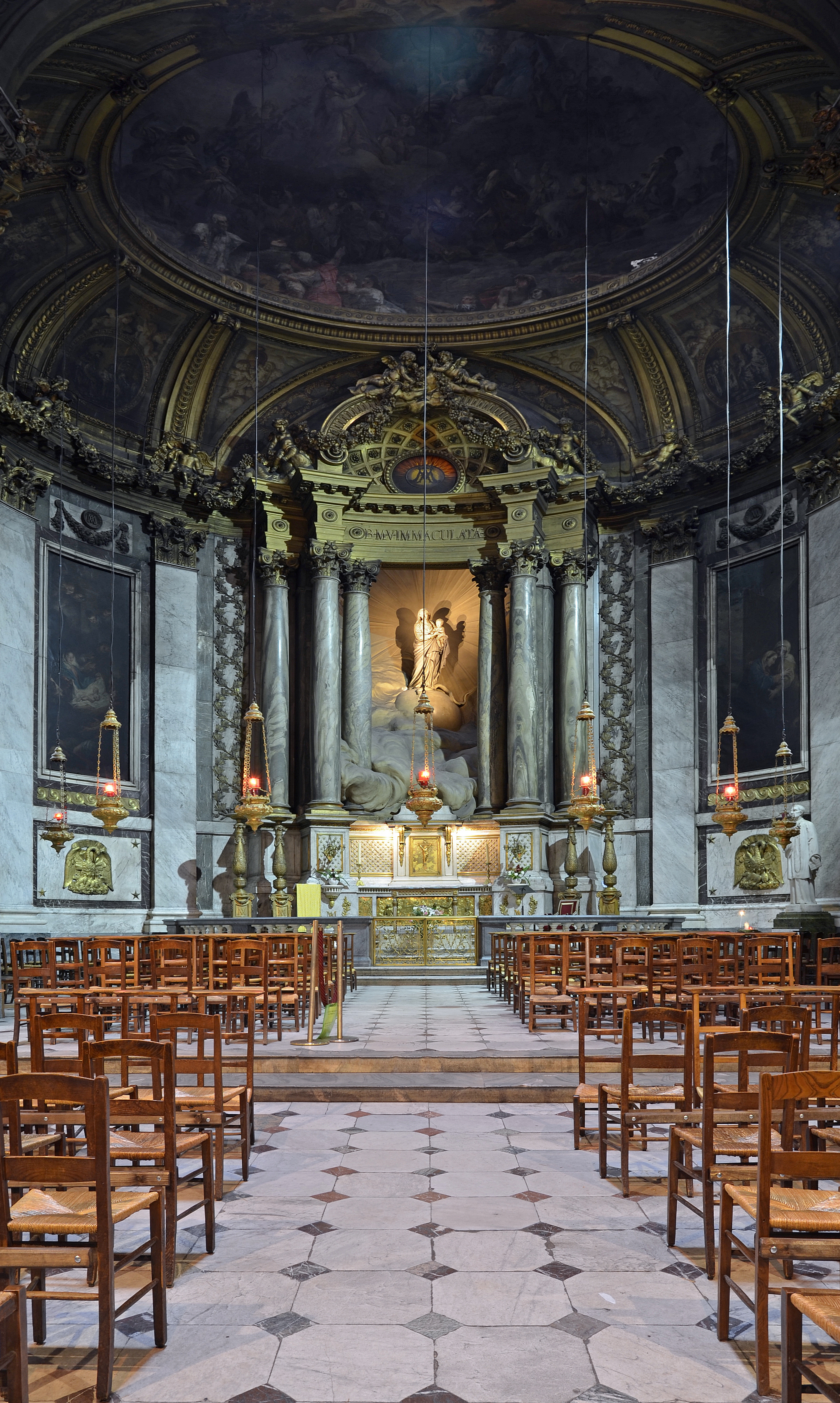 Chapel of the Virgin in Saint-Sulpice church - Paris, France